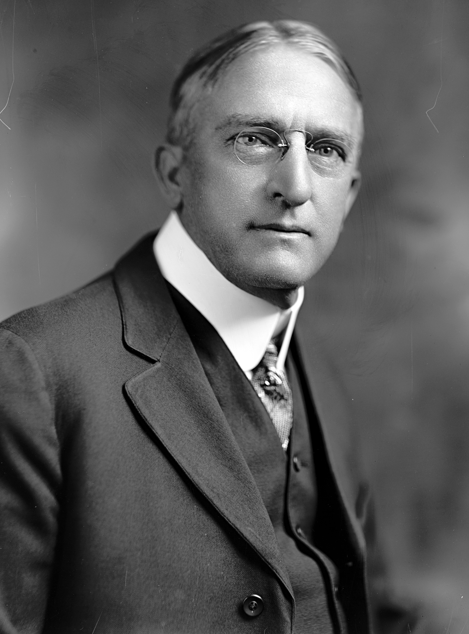 Edward W. Townsend, US Representative from New Jersey